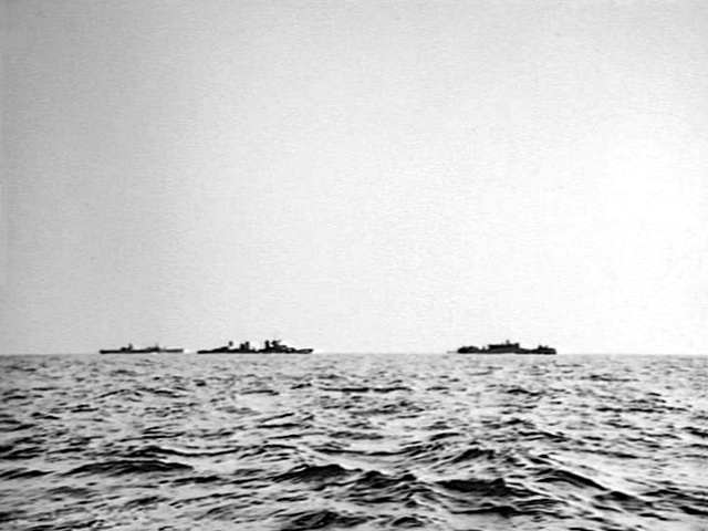 The U.S. Navy Northampton-class heavy cruiser USS Houston (CA-30) escorts merchant ships in the Timor Sea, in February 1942. The photo was takten from the Australian Grimsby-class corvette HMAS Swan (U74).